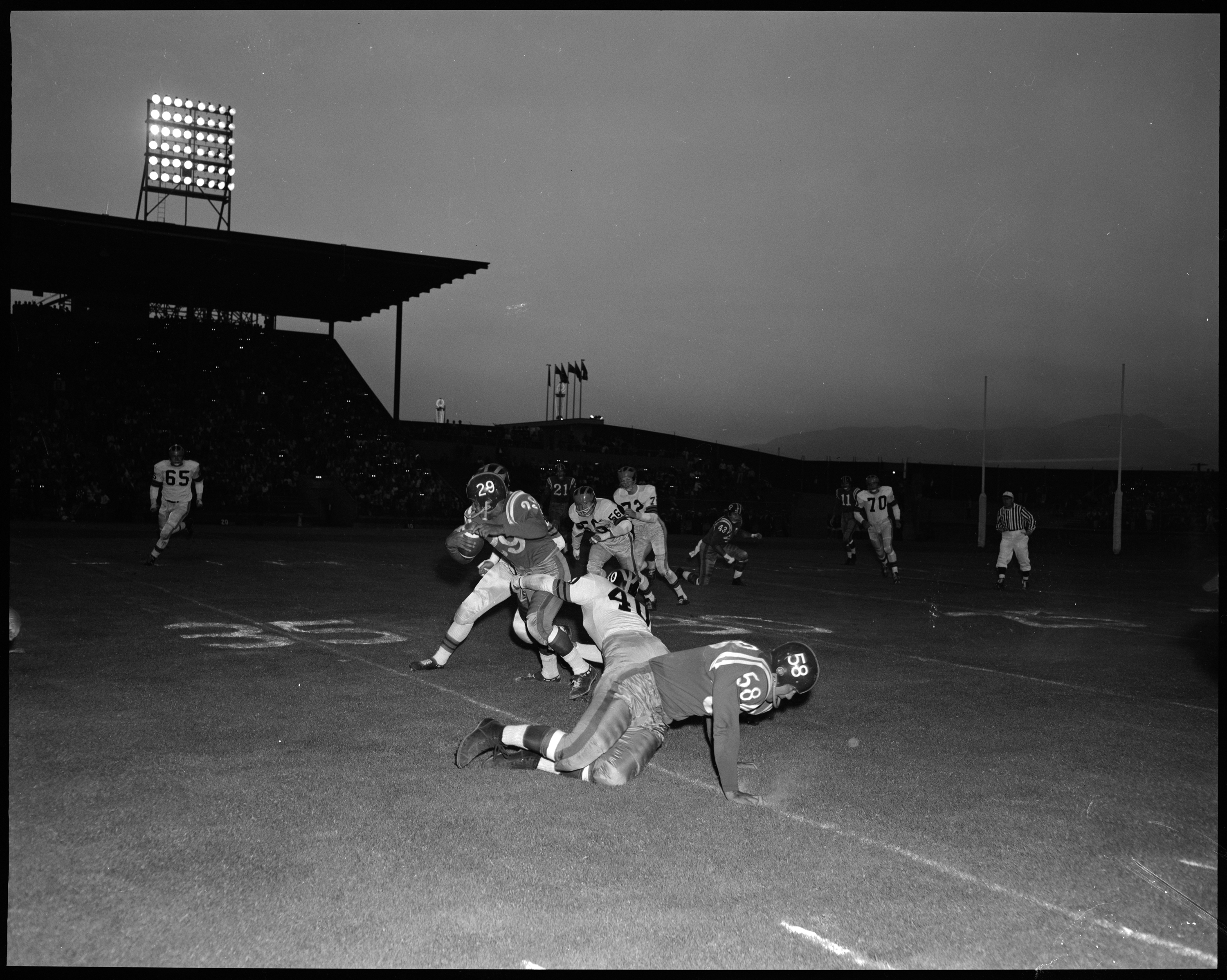 B.C. Lions versus Winnipeg Blue Bombers VPL Accession Number: 43956 Date: August 11, 1960 Photographer/Studio: Province Newspaper Topic: Football Football players Crowds Sports Organization: Empire Stadium (Vancouver, B.C.) B.C. Lions Football Club Winnipeg Blue Bombers (Football team) Location: British Columbia - Vancouver - Hastings-Sunrise More information on our historical photograph collection